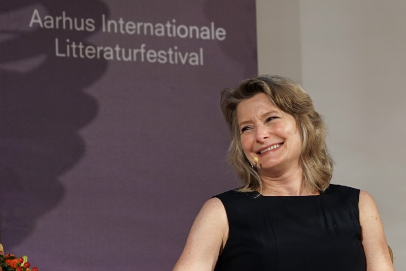 Jennifer Egan at LitteratureXchange Festival in Aarhus (Denmark 2019)